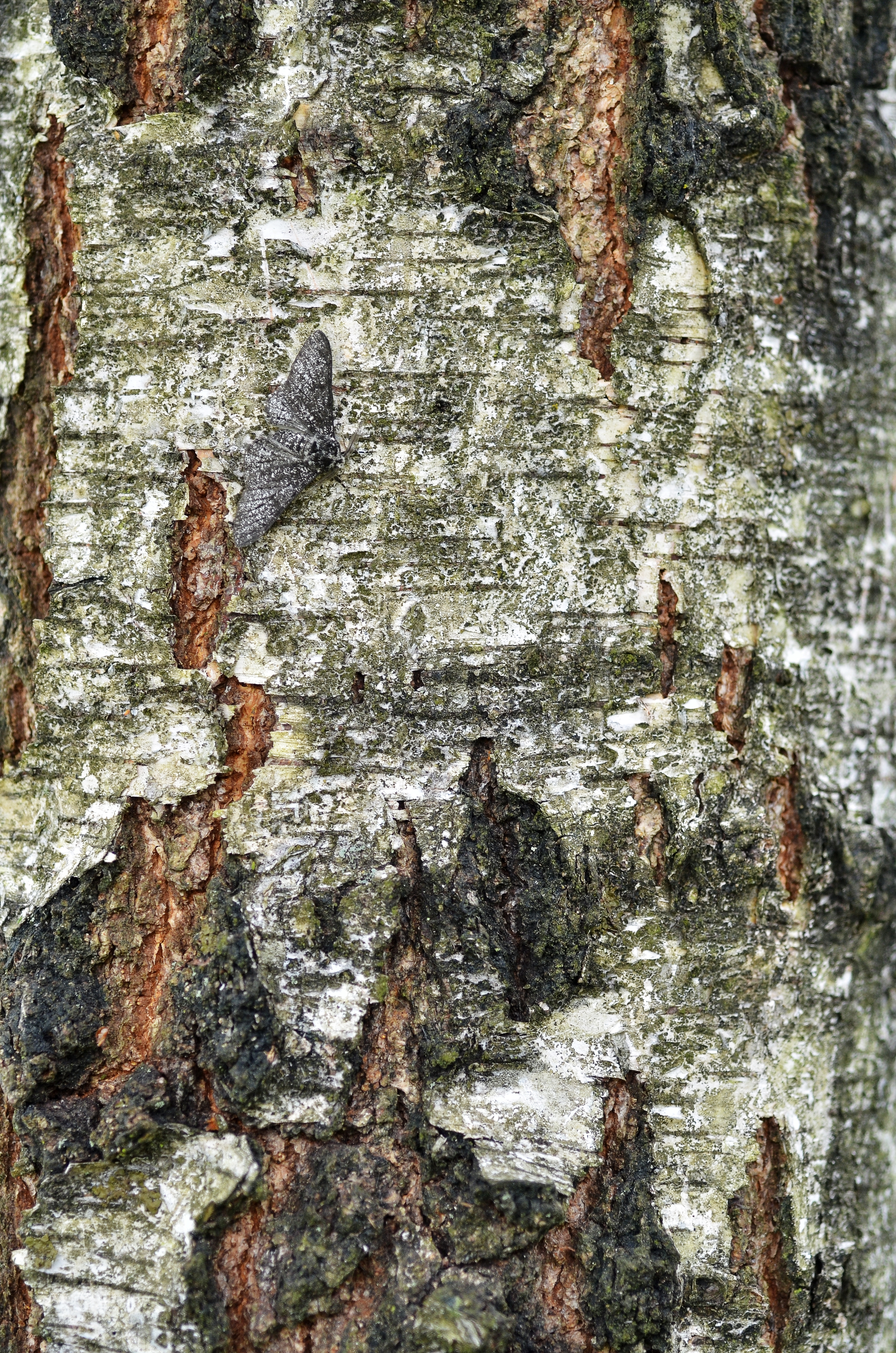 the Peppered Moth Biston betularia (Lepidoptera,Geometridae) on the bark of a birch (Betula pendula) Locality : Jalhay, Belgium